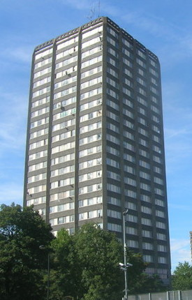 Grenfell Tower in London.